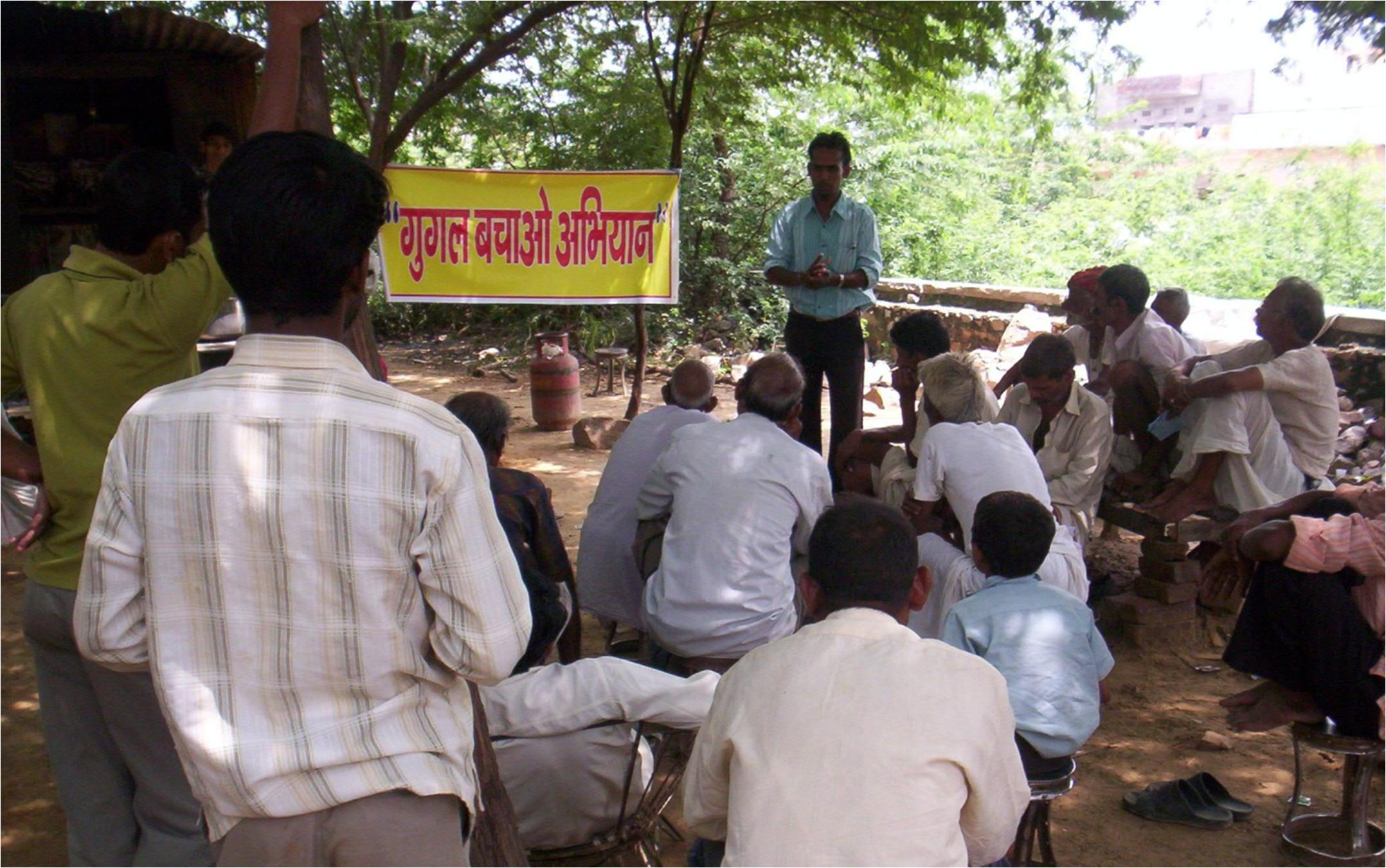 Awareness programs to conserve guggul plants